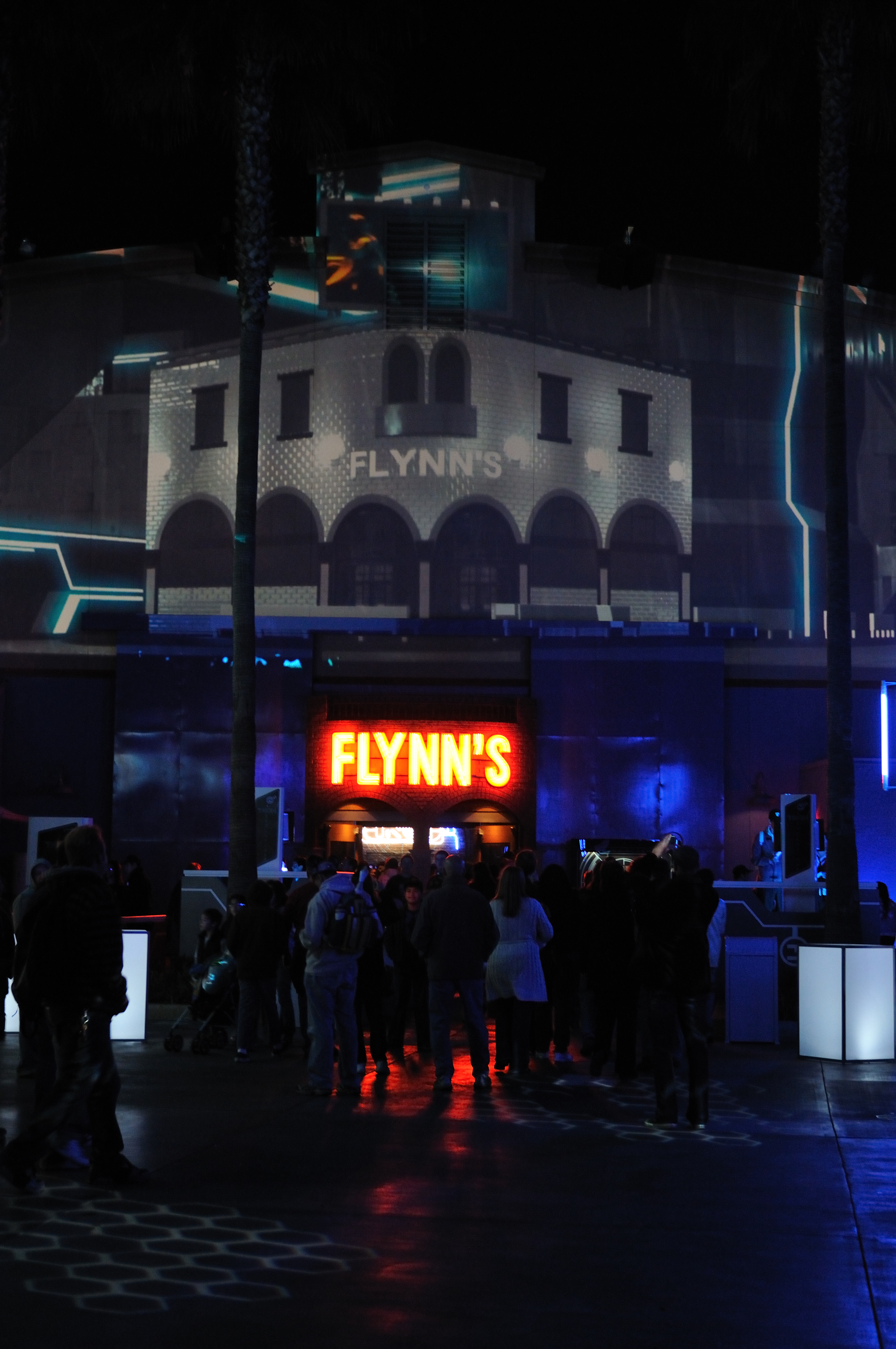 Flynn's Arcade at ElecTRONica.